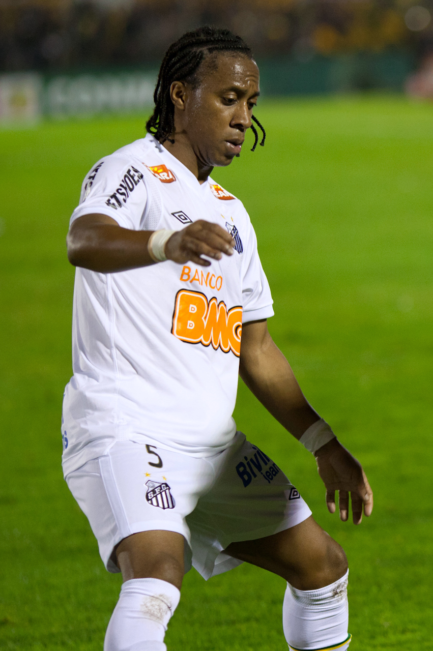 Arouca (Santos) during the 2011 Copa Libertadores final in the Centenario Stadium of Montevideo.